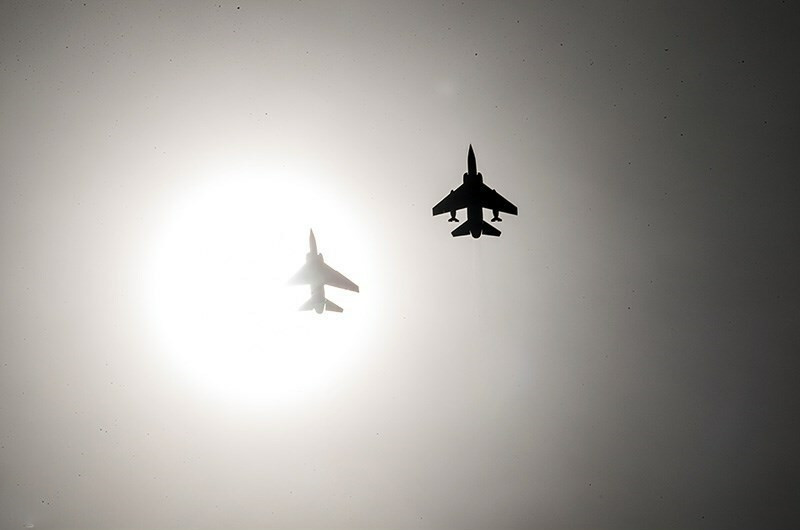 Islamic Republic of Iran Air Force training